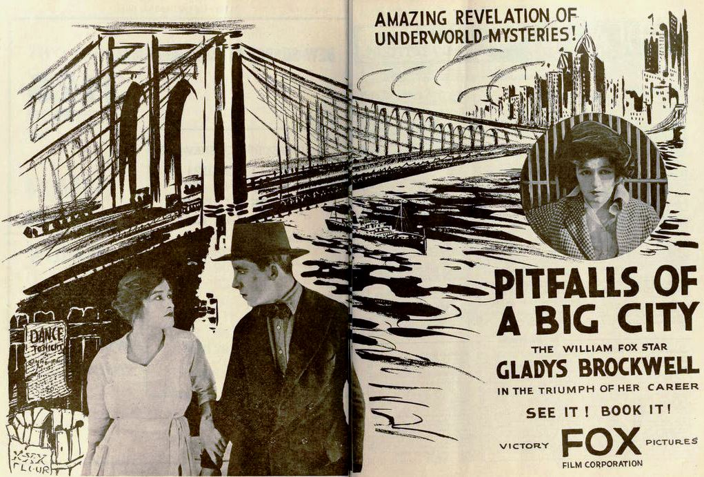 Advertisement for the American film Pitfalls of a Big City (1919) with Gladys Brockwell and William Scott, on pages 194 and 195 of the April 12, 1919 Moving Picture World.